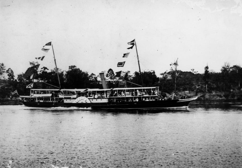 Lucinda (ship)